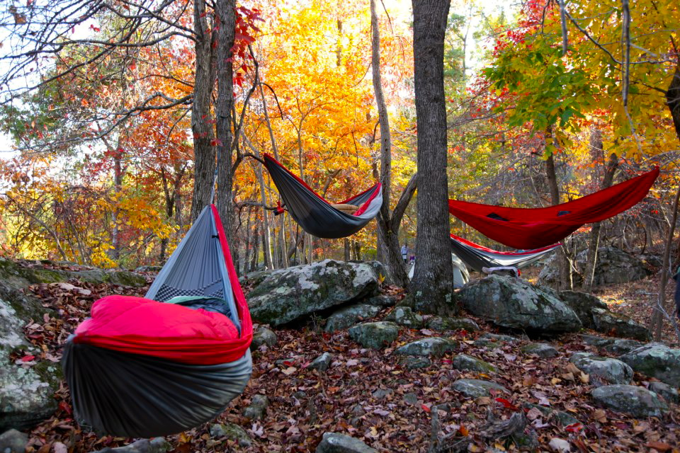 Hammock Camping is a great way to cut down on weight and space in your camping pack. They are an extremely comfortable alternative to tent camping.